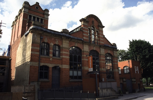 Water Street Hydraulic Pump House. Now the Labour History Museum. Opened 1907 with steam pumping sets raising high pressure water to distribute to consumers to work machinery. This system predates electricity as a means of distributing energy to consumers from a central station. Popular in dock estates but several cities had municipal schemes (eg - London, Liverpool, Manchester, Glasgow, Birmingham and Hull). The power could be used for all sorts - winches, lifts, revolving stages, theatre curtains, organ blowers, fire hydrants (Greathead hydraulic ejector) and even an hydraulic vacuum cleaner (another ejector device). Station closed 1972 and the electrified remains of one pumping set is in the Greater Manchester Museum of Science and Industry.